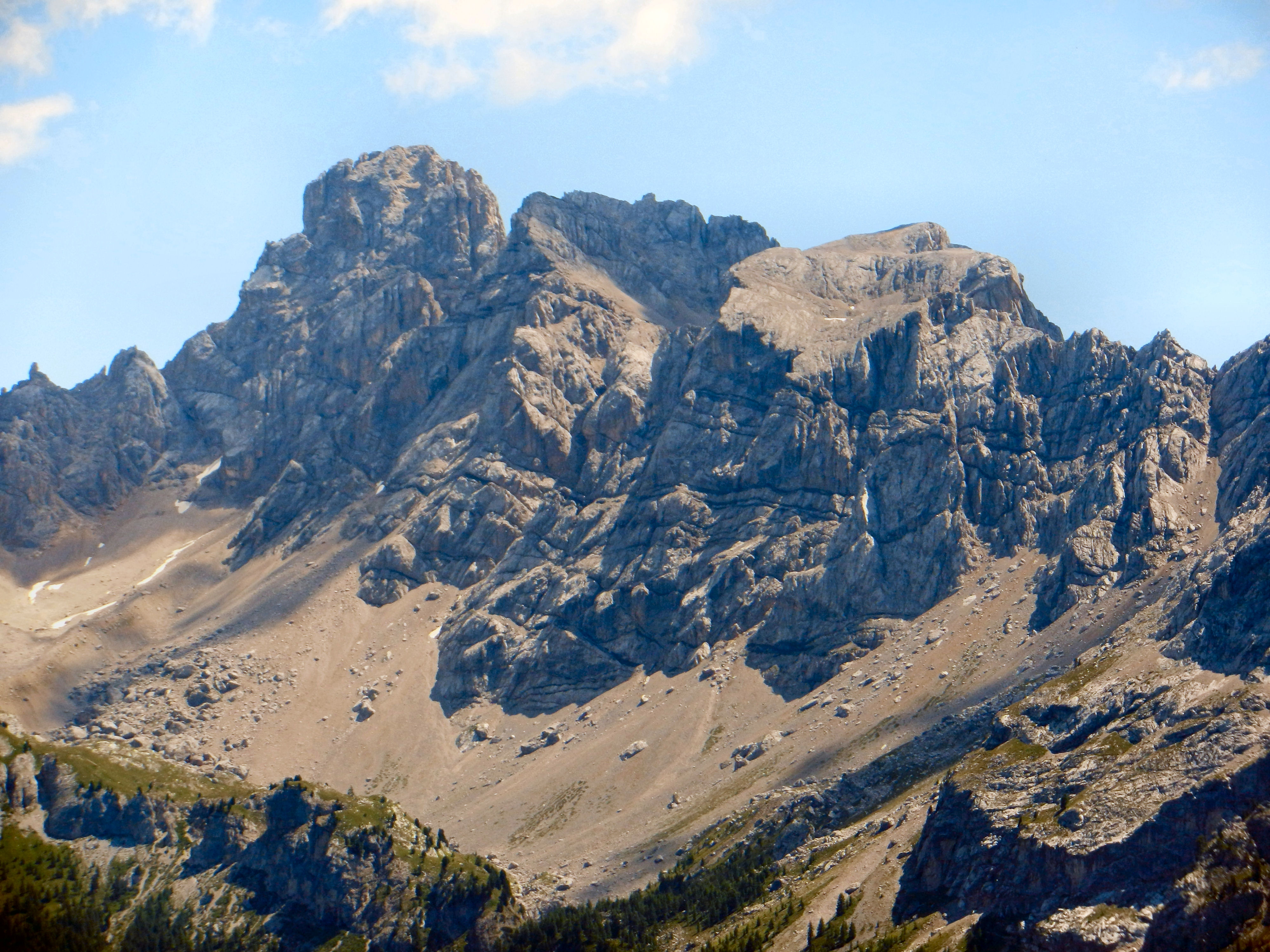 Dolomites, Cima dell'Uomo